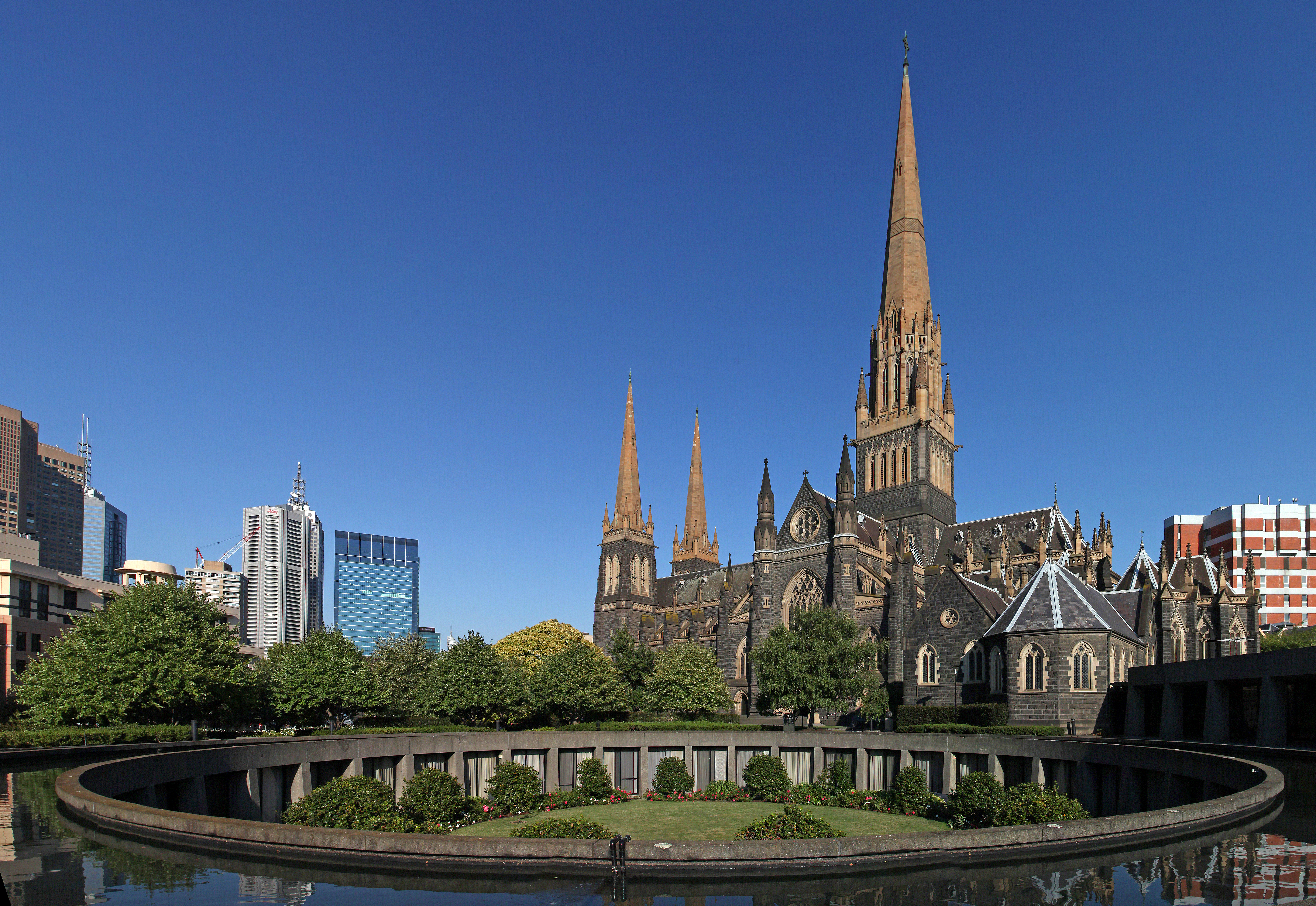 St Patrick's Cathedral ─ East Round Court